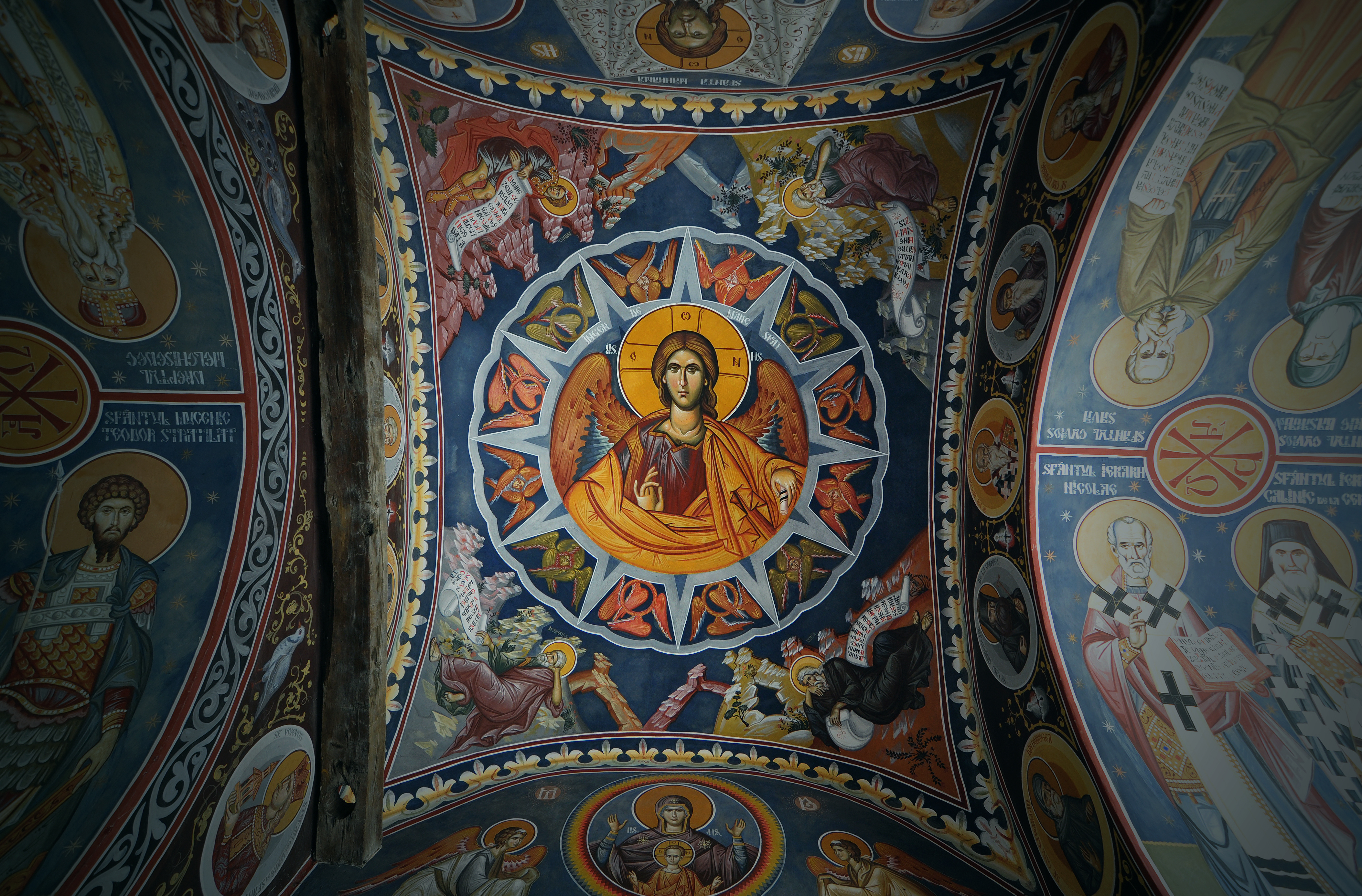 belfry at Radu Voda Monastery, Bucharest, Romania